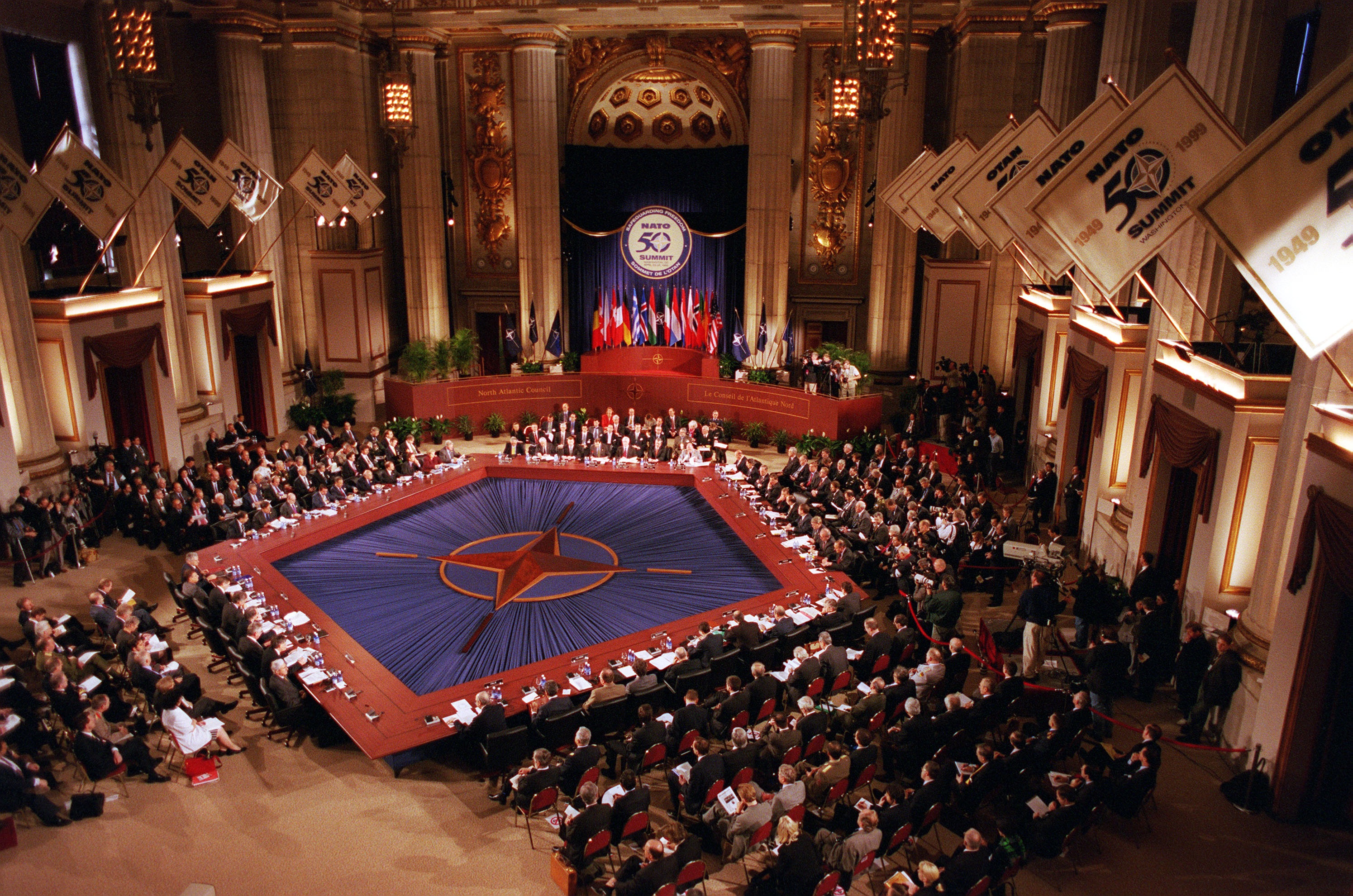 The North Atlantic Council (NAC) convenes in the Mellon Auditorium, Washington, D. C., on April 24, 1999. This historic site was chosen as the location for the 50th Anniversary NATO Summit because it was here, on April 4, 1949, that the North Atlantic Treaty was signed. The resulting institution, the North Atlantic Treaty Organization, has become the most successful alliance in modern history